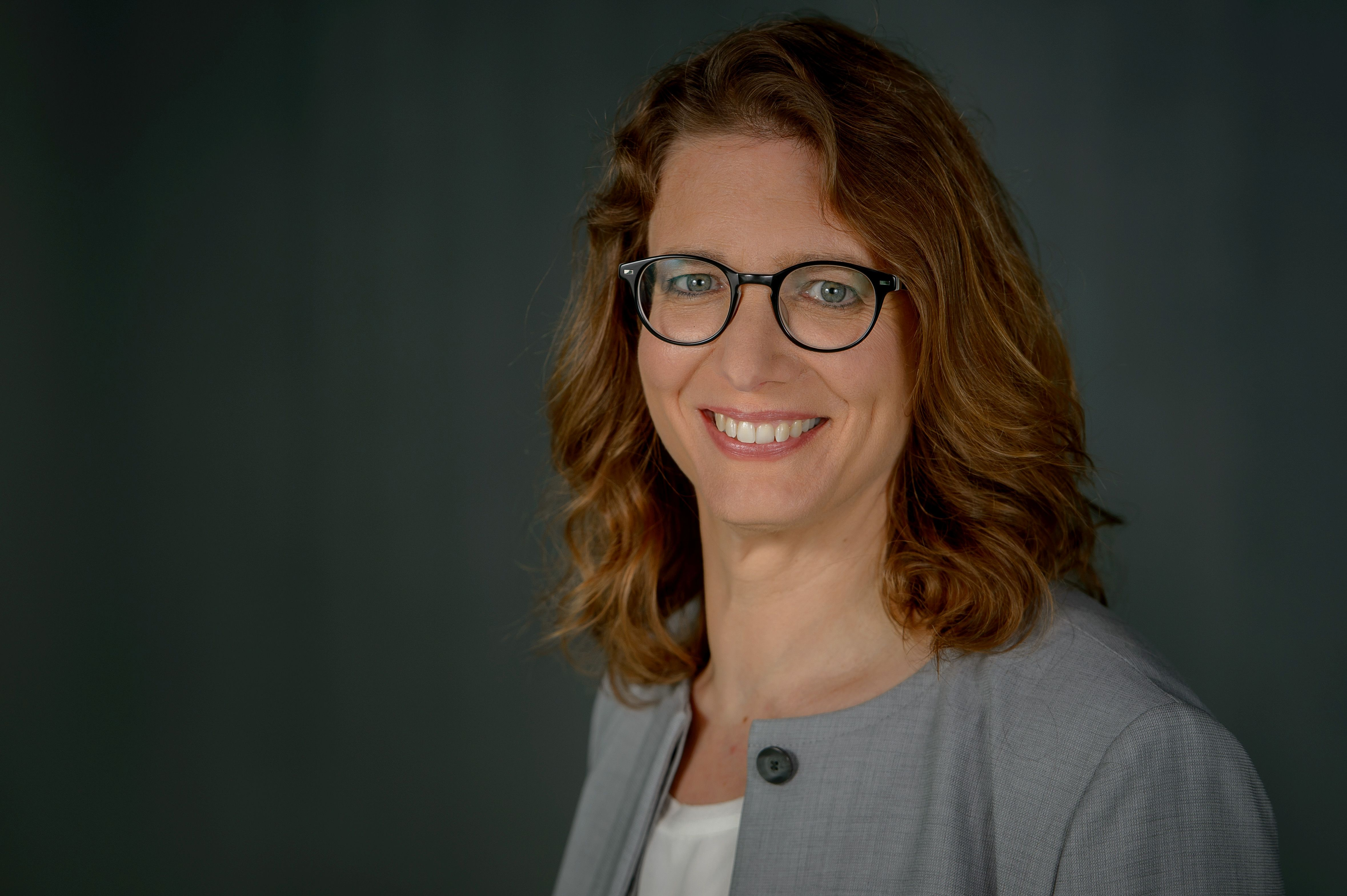 Dr. Livia Cotta as CEO of the Heinrich-Böll-Stiftung.